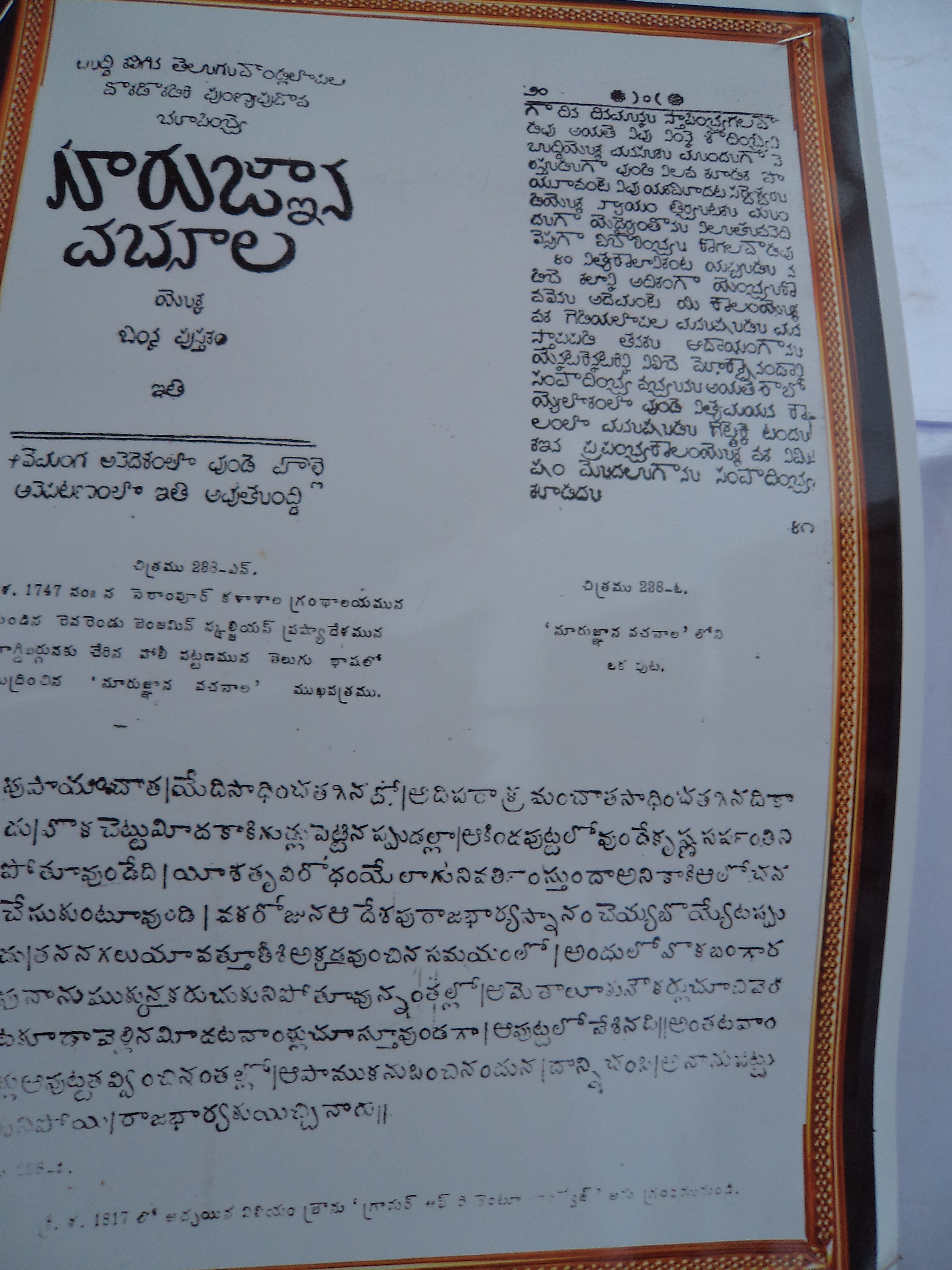 One of the first printed versions of Telugu